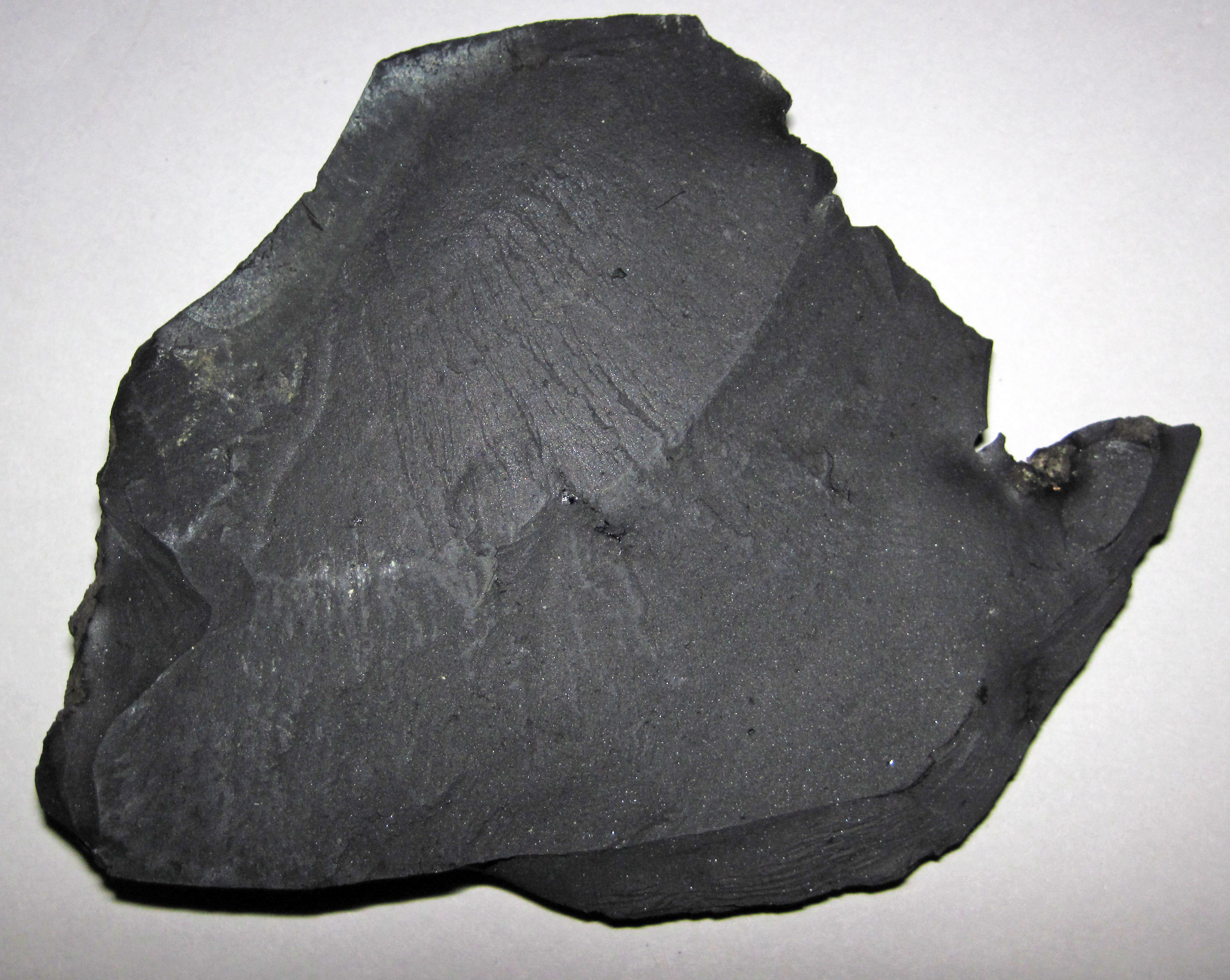 Cannel coal from the Pennsylvanian of Kentucky, USA. (9.4 cm across at its widest) Cannel coal is a scarce, fossil spore-rich variety of coal - it is hard, has a velvety to satiny luster, little to no stratification, and a conchoidal fracture. This sample is from the Cannel City-Amburgy Coal Zone at a large roadcut north of the town of Jackson, Kentucky. The outcrop has Pennsylvanian-aged cyclothemic sedimentary rocks of the Breathitt Group (formerly the Breathitt Formation). The cannel coal horizon was economically significant in the early 20th century, and the unit was extensively mined in eastern Kentucky. Published info. (see Greb & Eble, 2014) indicates that this material is 33% ash and 1.6% sulfur. The maceral content includes liptinite (~47%), inertinite (~31%), and vitrinite (~22%). Samples often contain minor pyrite. Plant microfossils in this horizon are principally lycopsid tree spores and calamite sphenophyte spores. The cannel coal represents deposition in an ancient lake formed in a basement fault-generated depression. Stratigraphy: upper Cannel City-Amburgy Coal Zone, upper Pikeville Formation, Breathitt Group, lower Atokan Series (Duckmantian), lower Middle Pennsylvanian Locality: Jackson North outcrop - large roadcut on the eastern side of new Rt. 15, just south of the southbound old Rt. 15-new Rt. 15 split, north of the town of Jackson, north-central Breathitt County, eastern Kentucky, USA (37° 34’ 53.95” North, 83° 23’ 07.99” West) Reference cited: Greb & Eble (2014) - Cannel coals of the Cannel City-Amburgy Coal Bed (Pikeville Formation, Middle Pennsylvanian); evidence for possible fault-generated lakes. Geological Society of America Abstracts with Programs 46(6): 604.